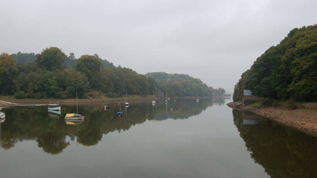 View of Rudyard Lake, with reflection